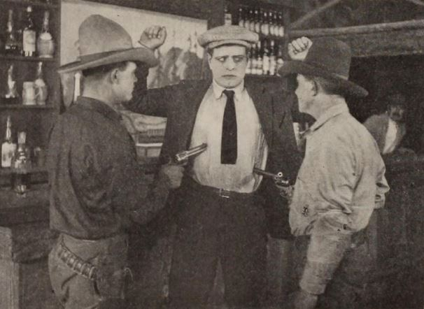 Still from the American western film serial Thunderbolt Jack (1920) with Jack Hoxie, on page 79 of the September 11, 1920 Exhibitors Herald.